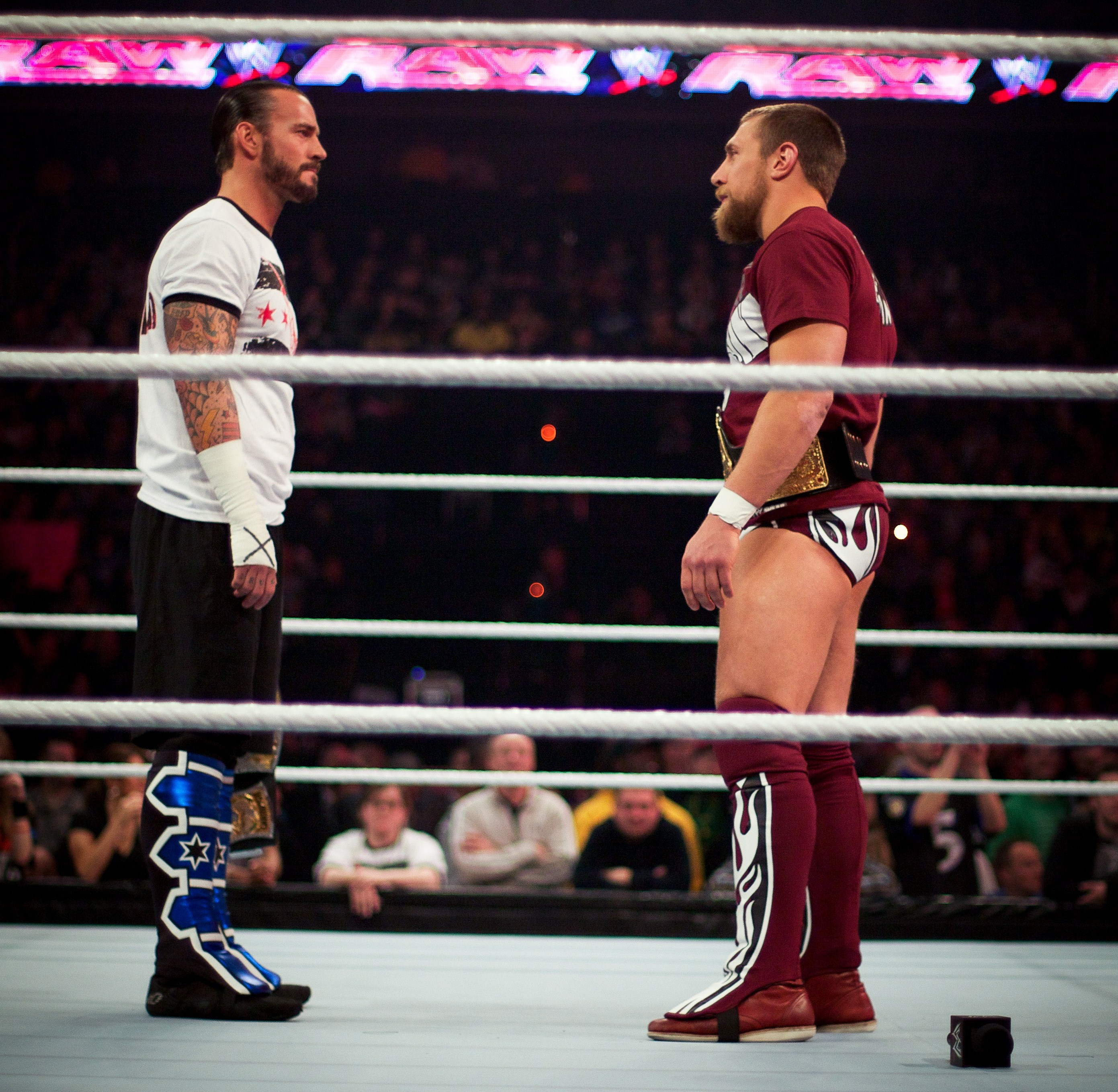 CM Punk, the WWE Champion, has a stare-down with Daniel Bryan, the World Heavyweight Champion during the January 30, 2012 episode of WWE Raw.